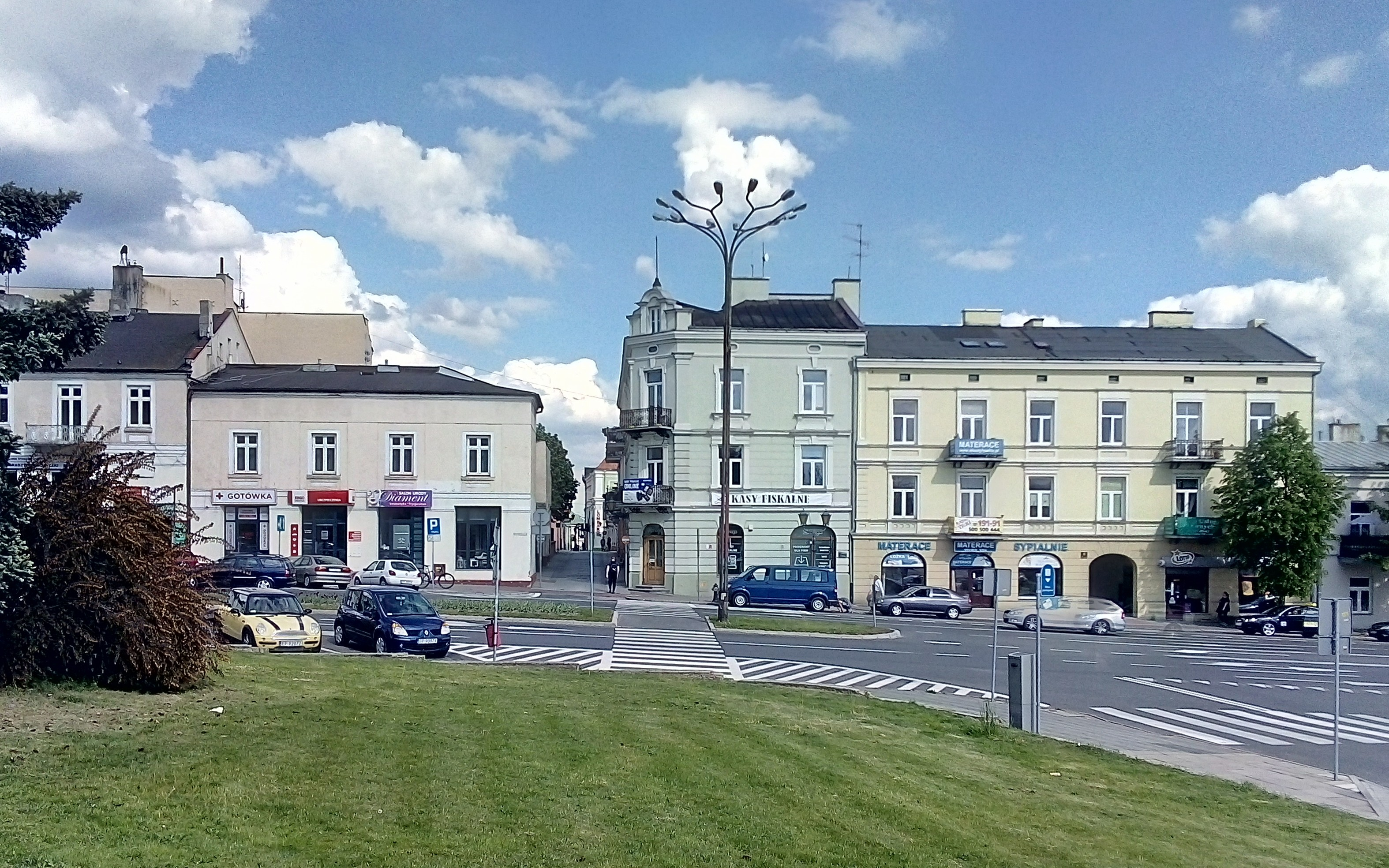 3 Maja Street and Old Town in Piotrków Trybunalski in Poland.